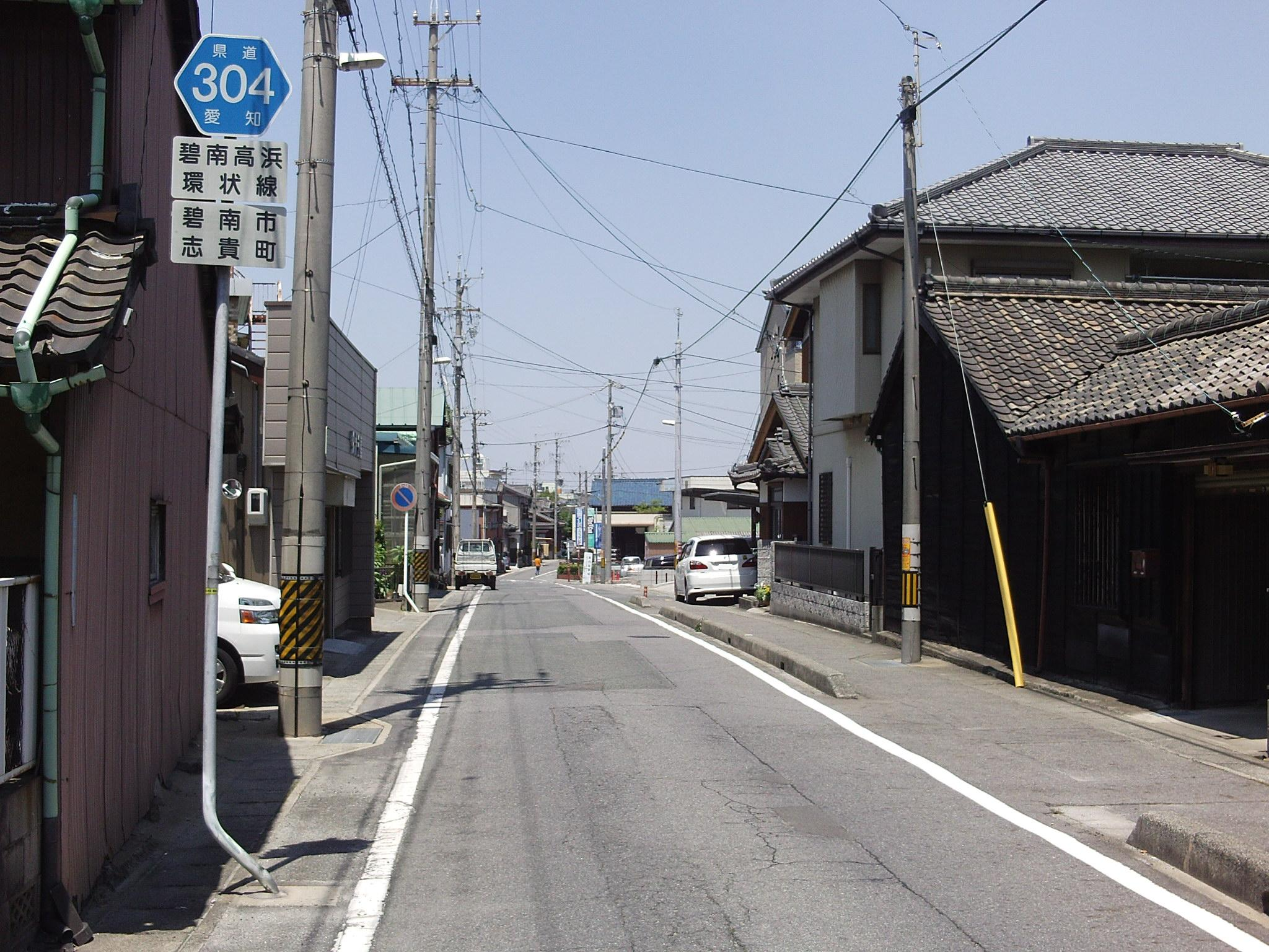 Aichi prefectural road No.304 in Shikimachi, Hekinan, Aichi.